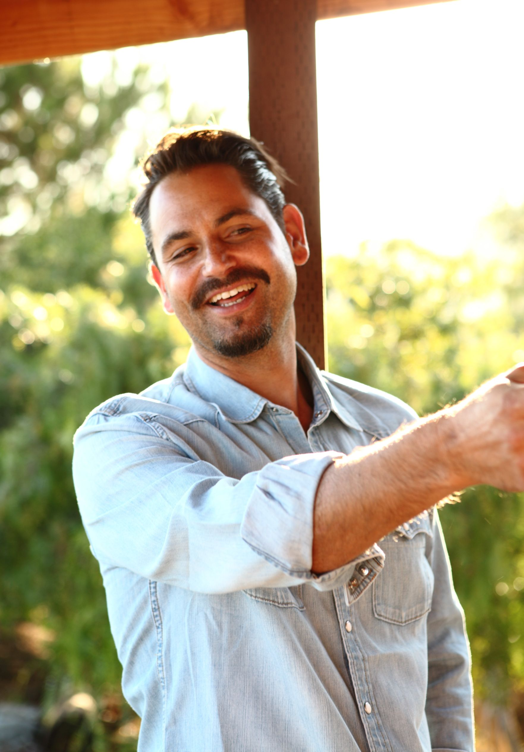 Photo of Brenton Brown